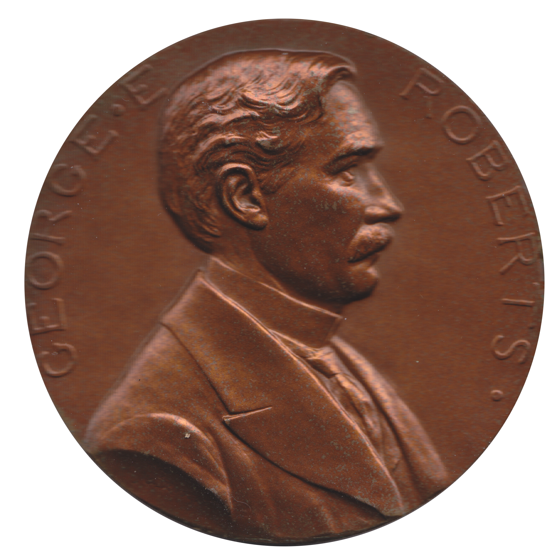 Mint medal honoring the service of Director of the Mint George E. Roberts (1898-1907, 1910-1914). It was designed by Mint Engraver Barber.